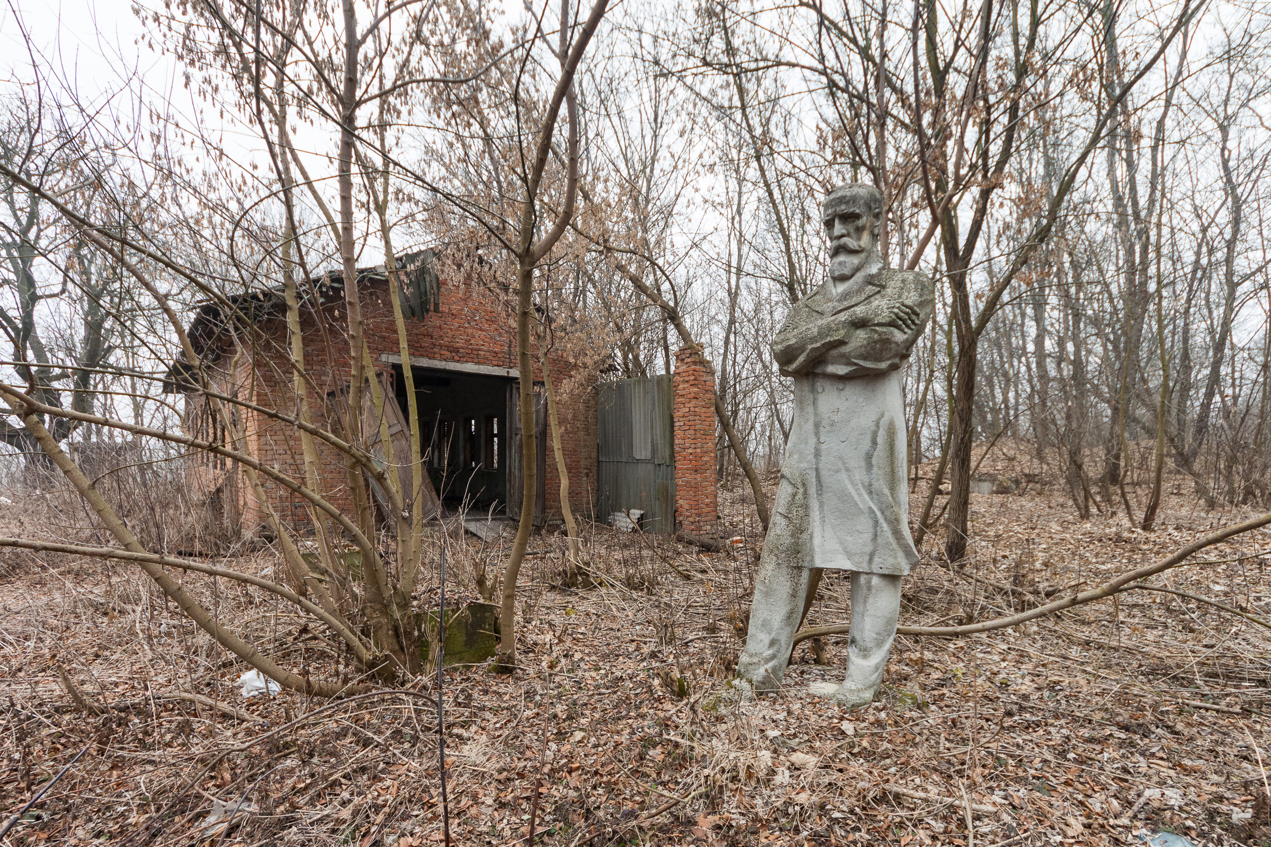 Ivan Puluj monument. Landscape Park in Hrymailiv, Ukraine